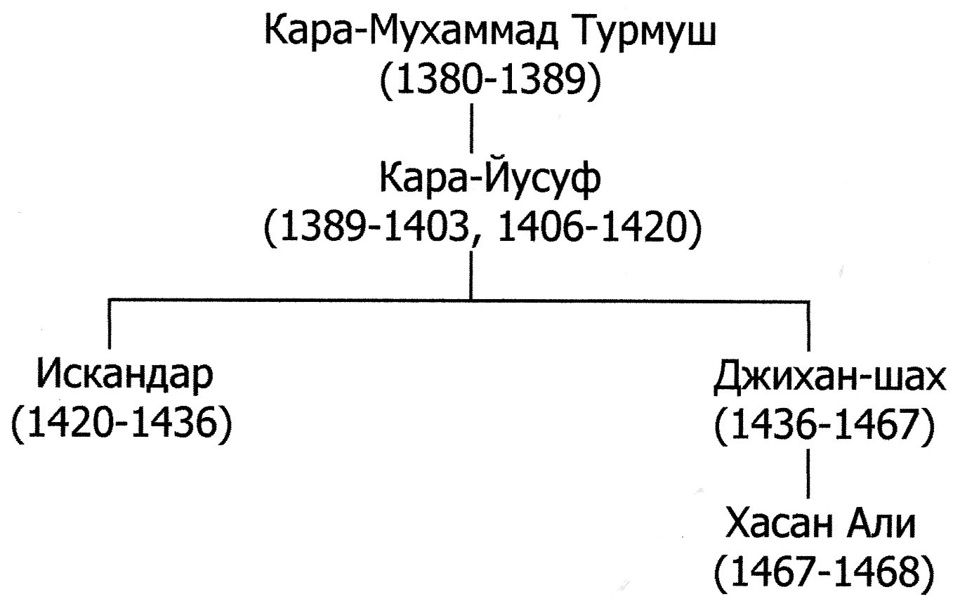 Kara-koyunlu dynasty.